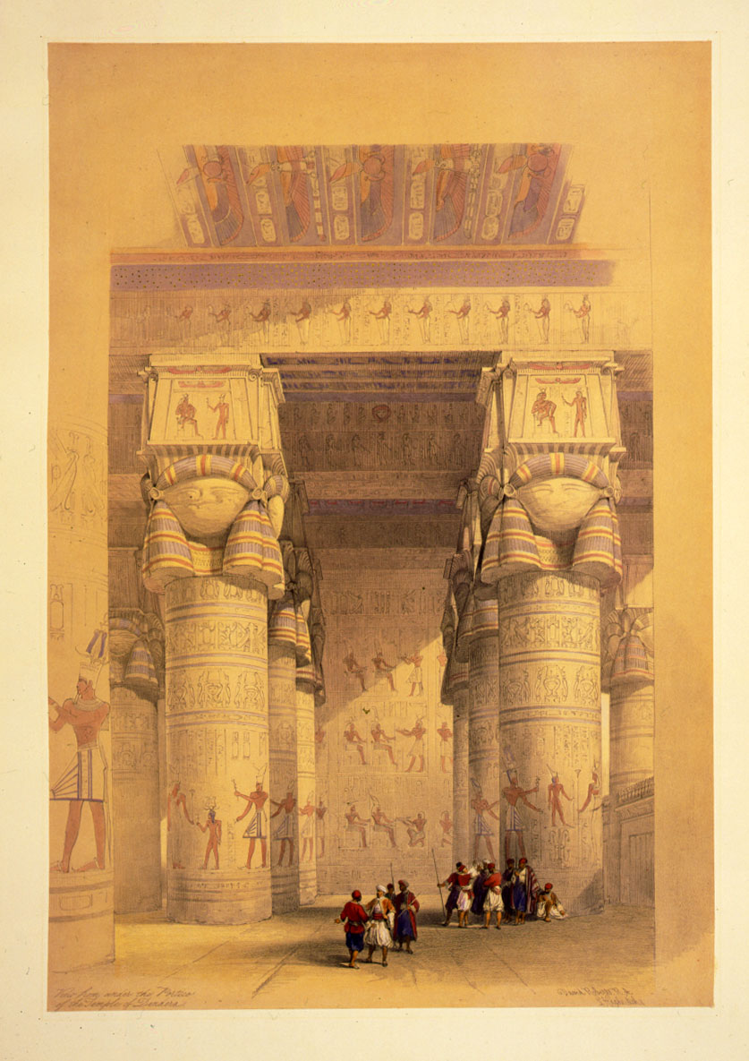 Picture of a print from David Roberts' Egypt & Nubia, issued between 1845 and 1849.